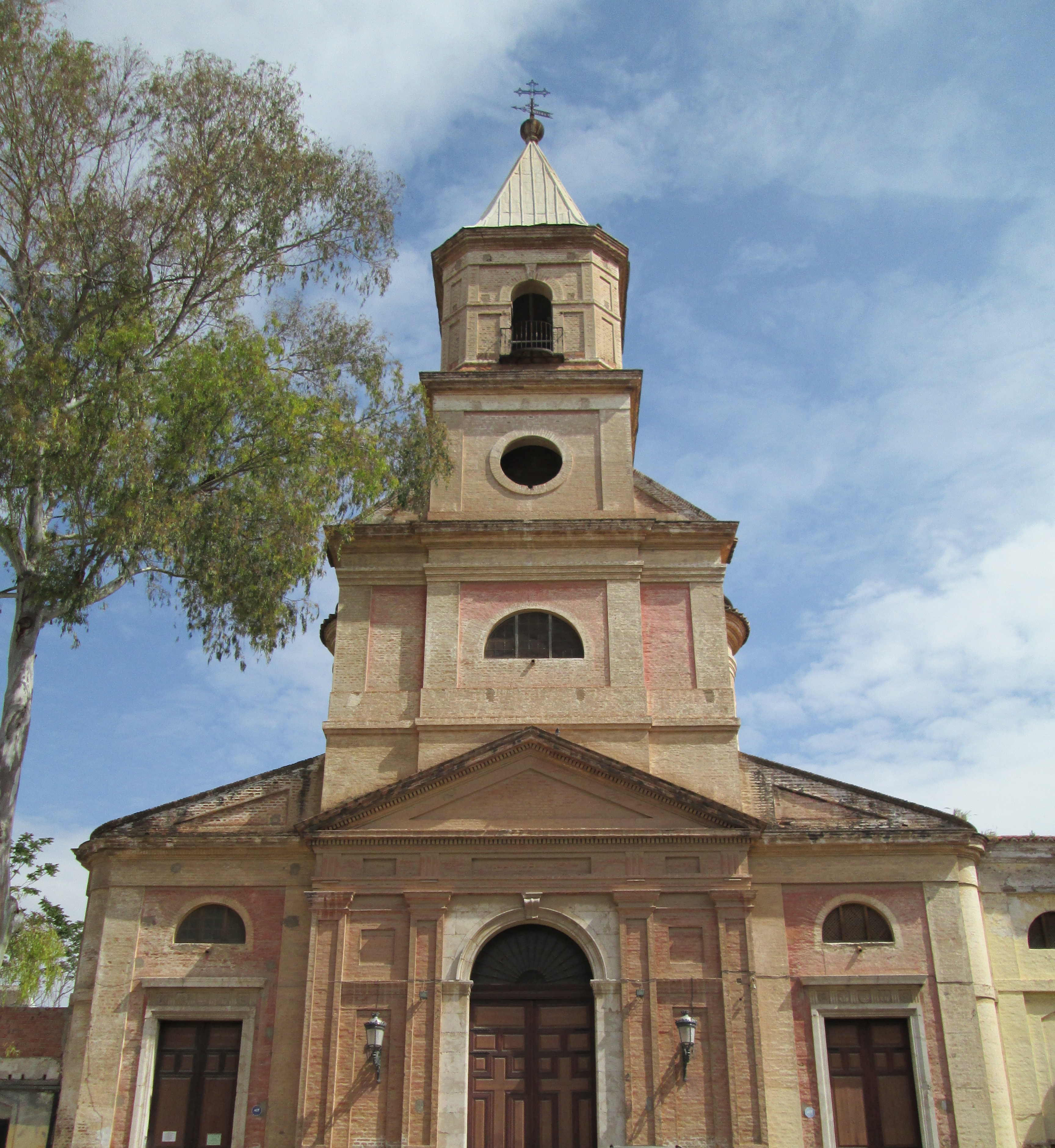 Málaga